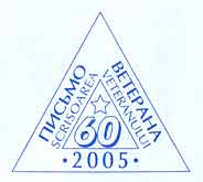 Stamp of Moldova